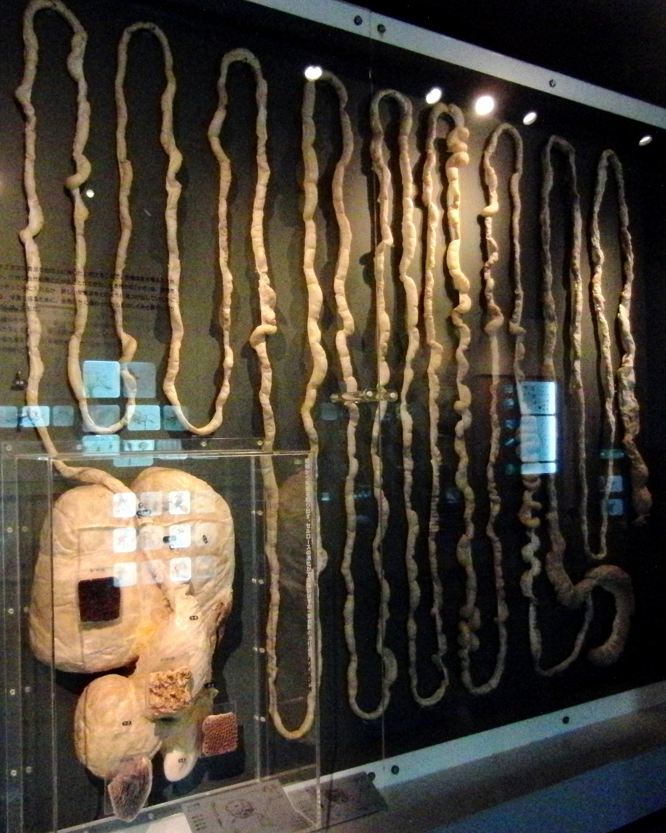 Stomachs and intestines of cattle (Bos taurus). Exhibit in the National Museum of Nature and Science, Tokyo, Japan.